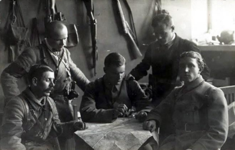 1918 Finnish Civil War Terijoki Red Guard staff. From left: Otto Säämänen, Rikhard Lakka, Heikki Kaljunen, Väinö Laitinen and Konstantin Antonoff.